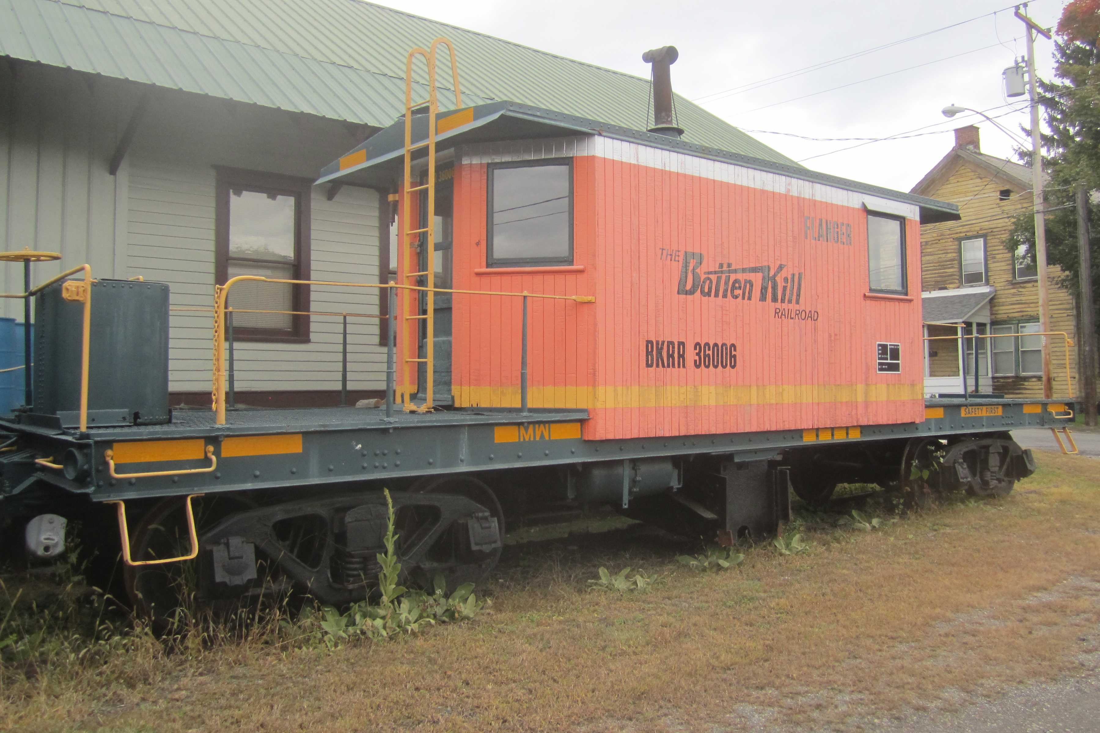 "Flanger" of the BattenKill Railroad, Greenwich NY